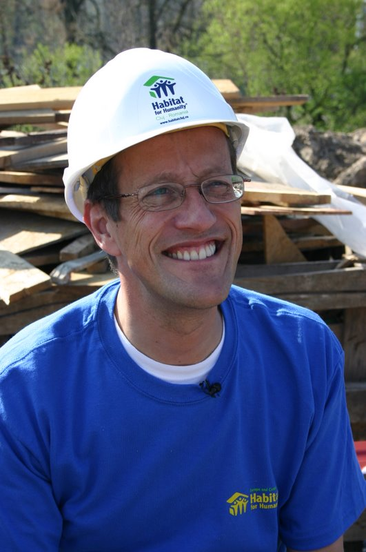 Richard Quest, volunteering with Habitat for Humanity in Cluj-Napoca, Romania, 13 April 2007